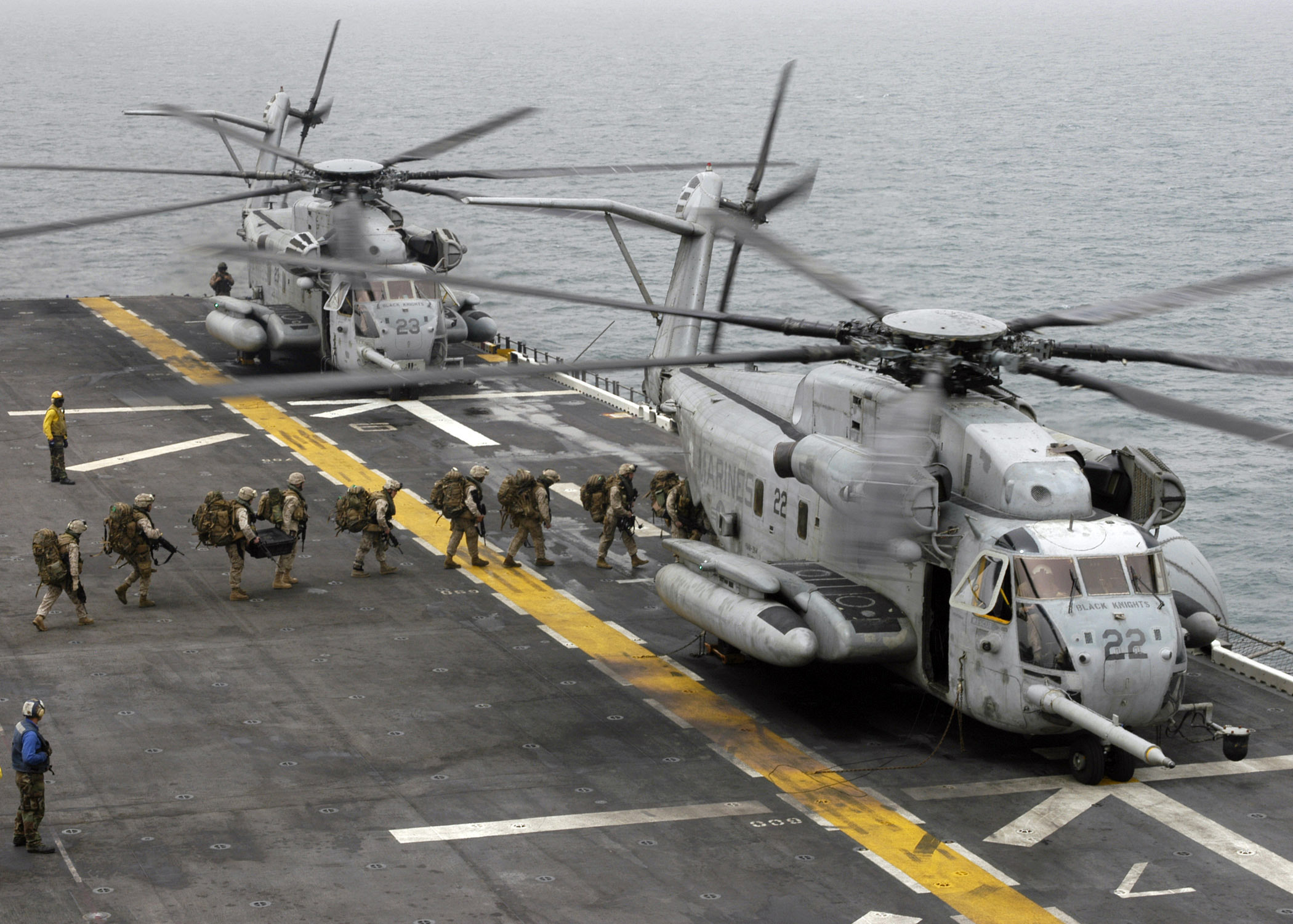 BLT 2/2, USMC: U.S. Marines attached to Battalion Landing Team 2/2 board a CH-53E Super Stallion helicopter aboard amphibious assault ship USS Bataan (LHD 5) April 2, 2007, in the Persian Gulf. The Marines are headed to Qatar to participate in exercise Eastern Maverick. The helicopter belongs to Medium Marine Helicopter Squadron 264 (Reinforced).